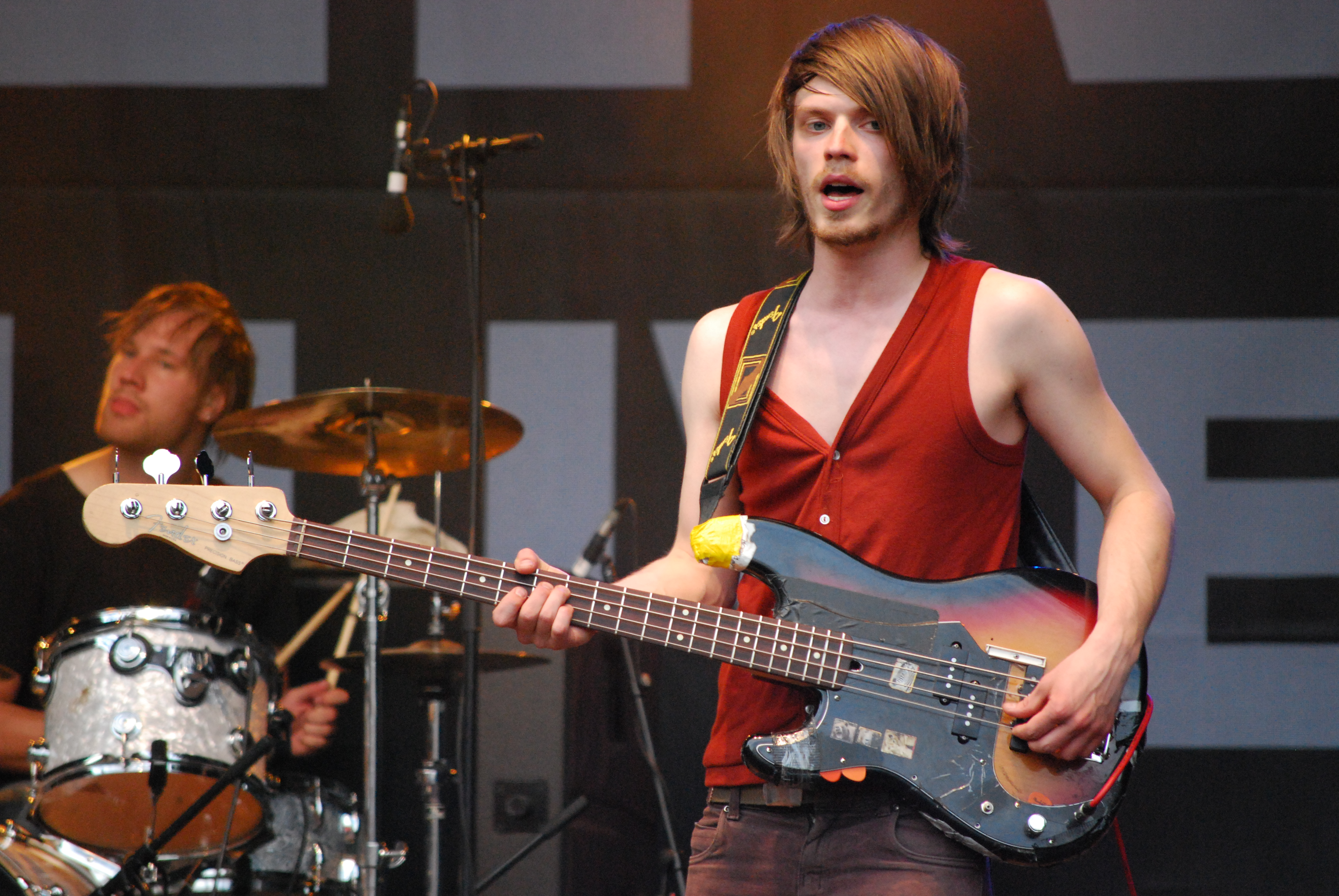 Lasse Lindfors of Disco Ensemble in Bochum